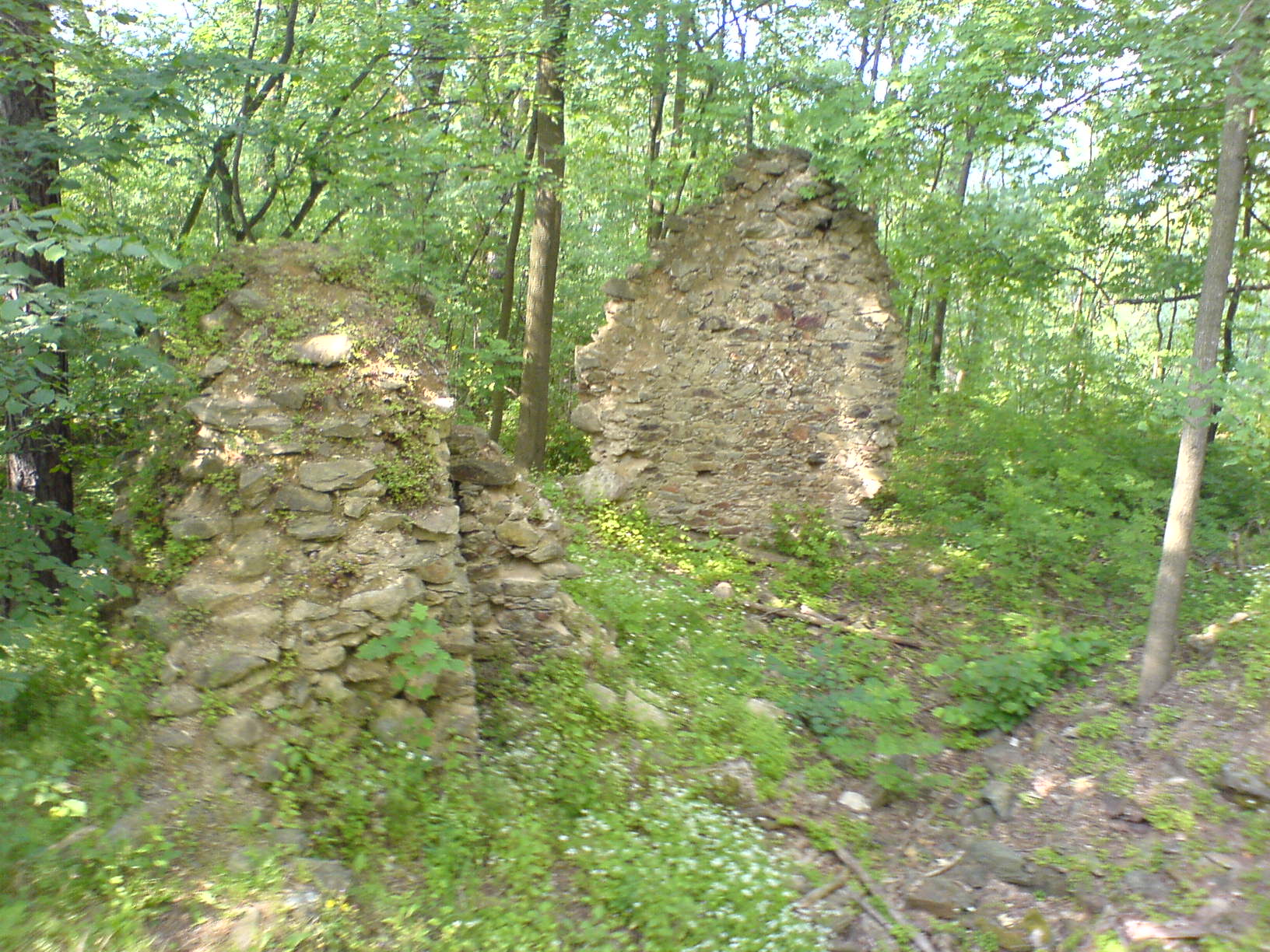 Photo of ruined castle Pušperk in Czech Republic